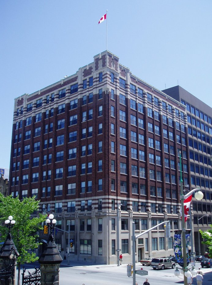 Victoria Building, Ottawa Taken by SimonP in July 2005